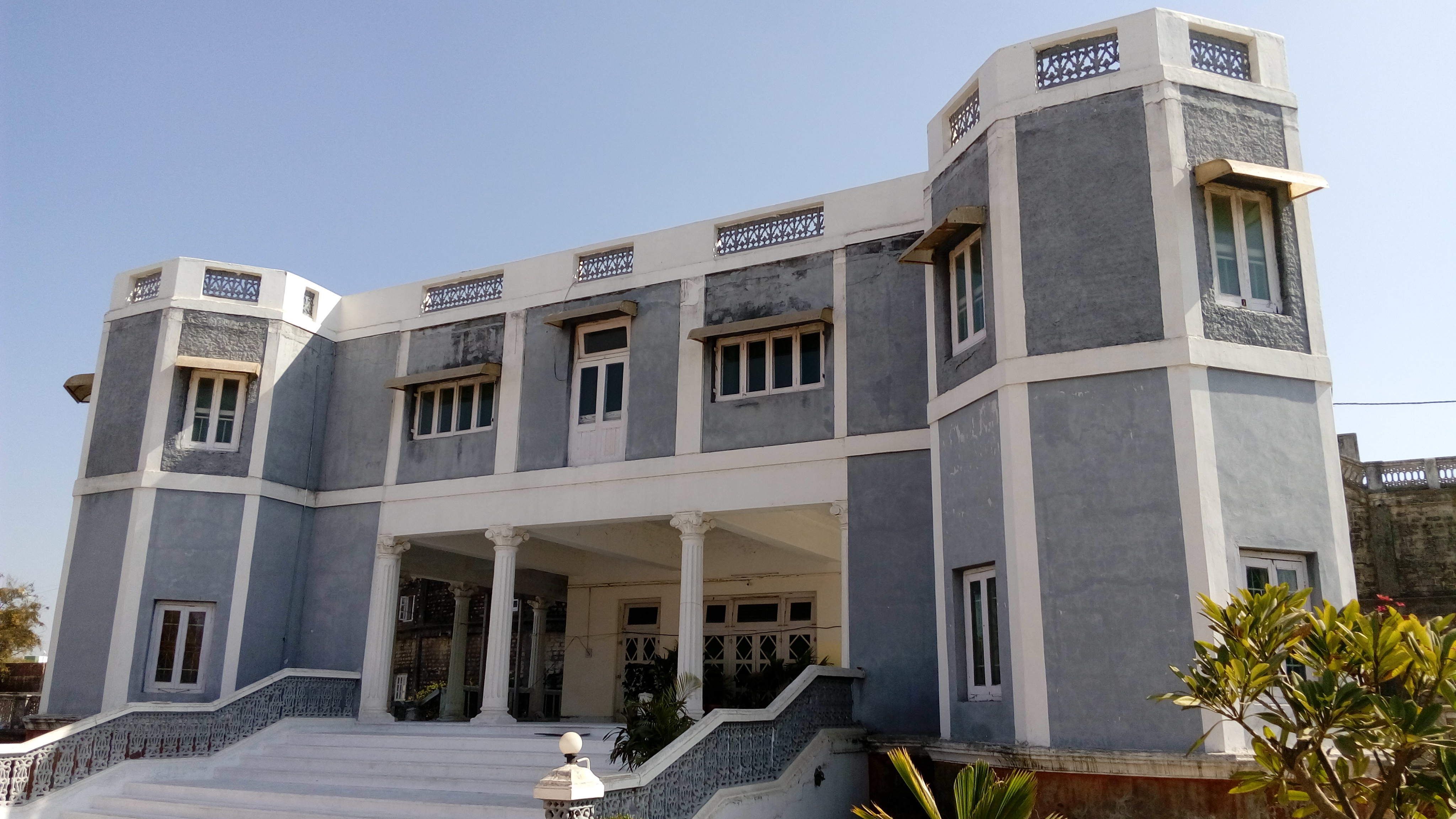 Dolat Vilas Palace Himmatnagar Gujarat India